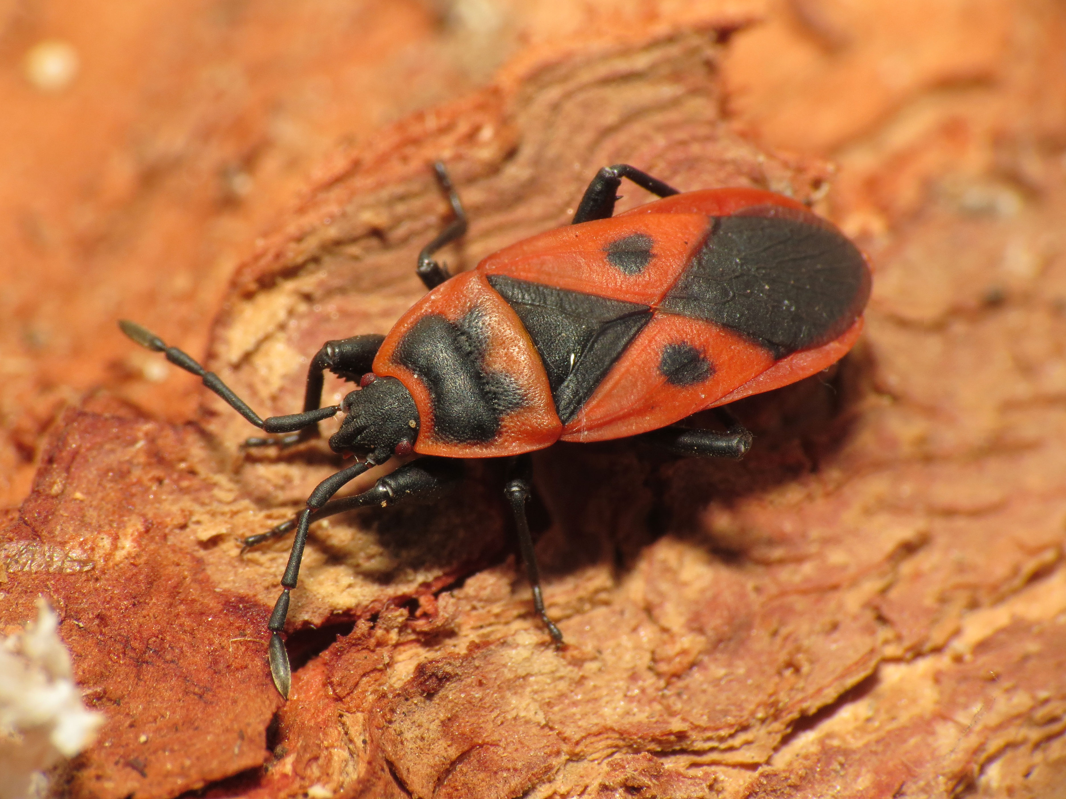 Scantius aegyptius on the trunk of a large Eucalyptus tree. Deveses, Alicante, Spain